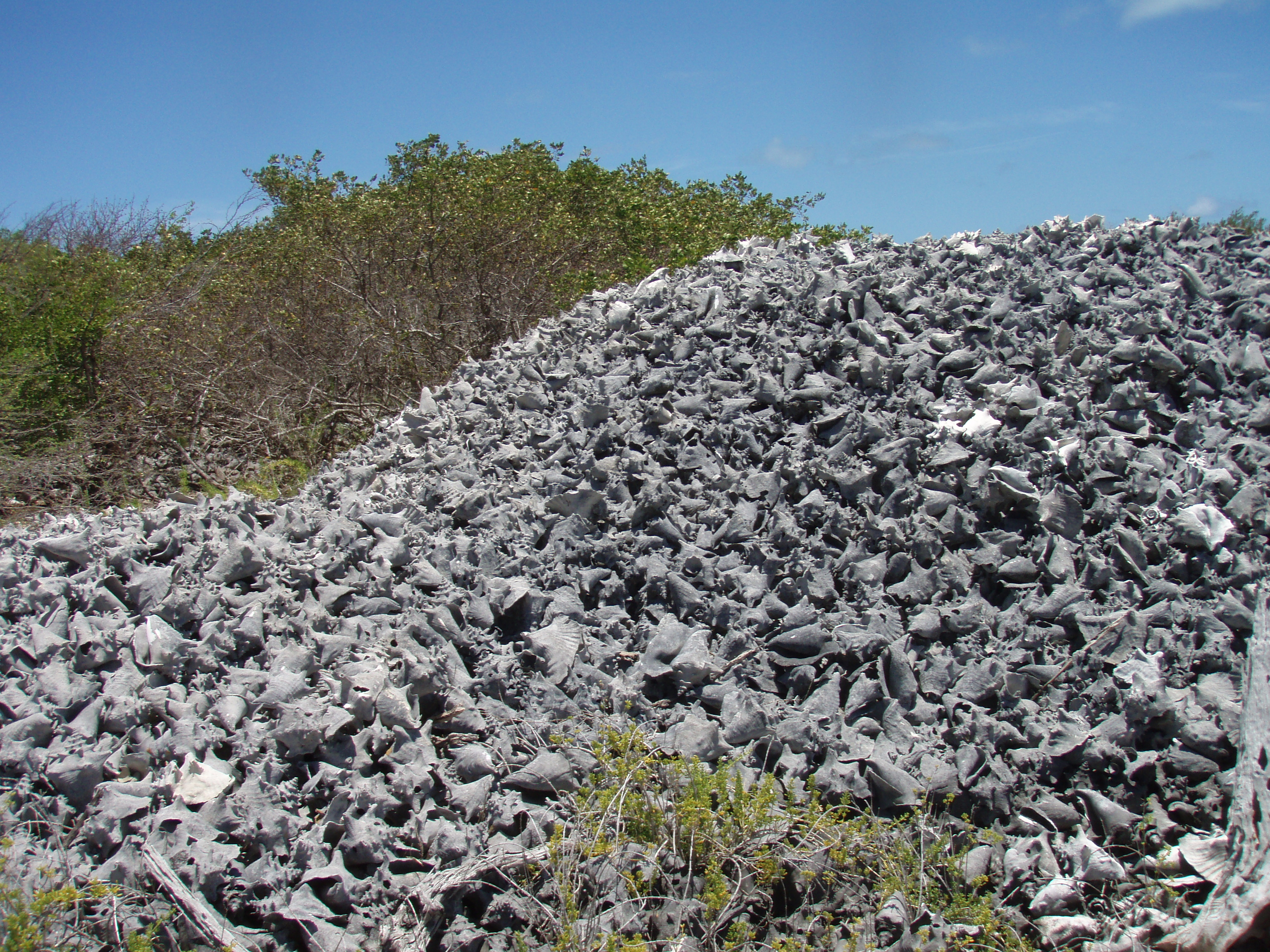 In Anegada in the British Virgin Islands, tens of thousands of shells of Lobatus gigas (the queen conch) whose meat was harvested for human consumption (synonyms: Strombus gigas, Eustrombus gigas)